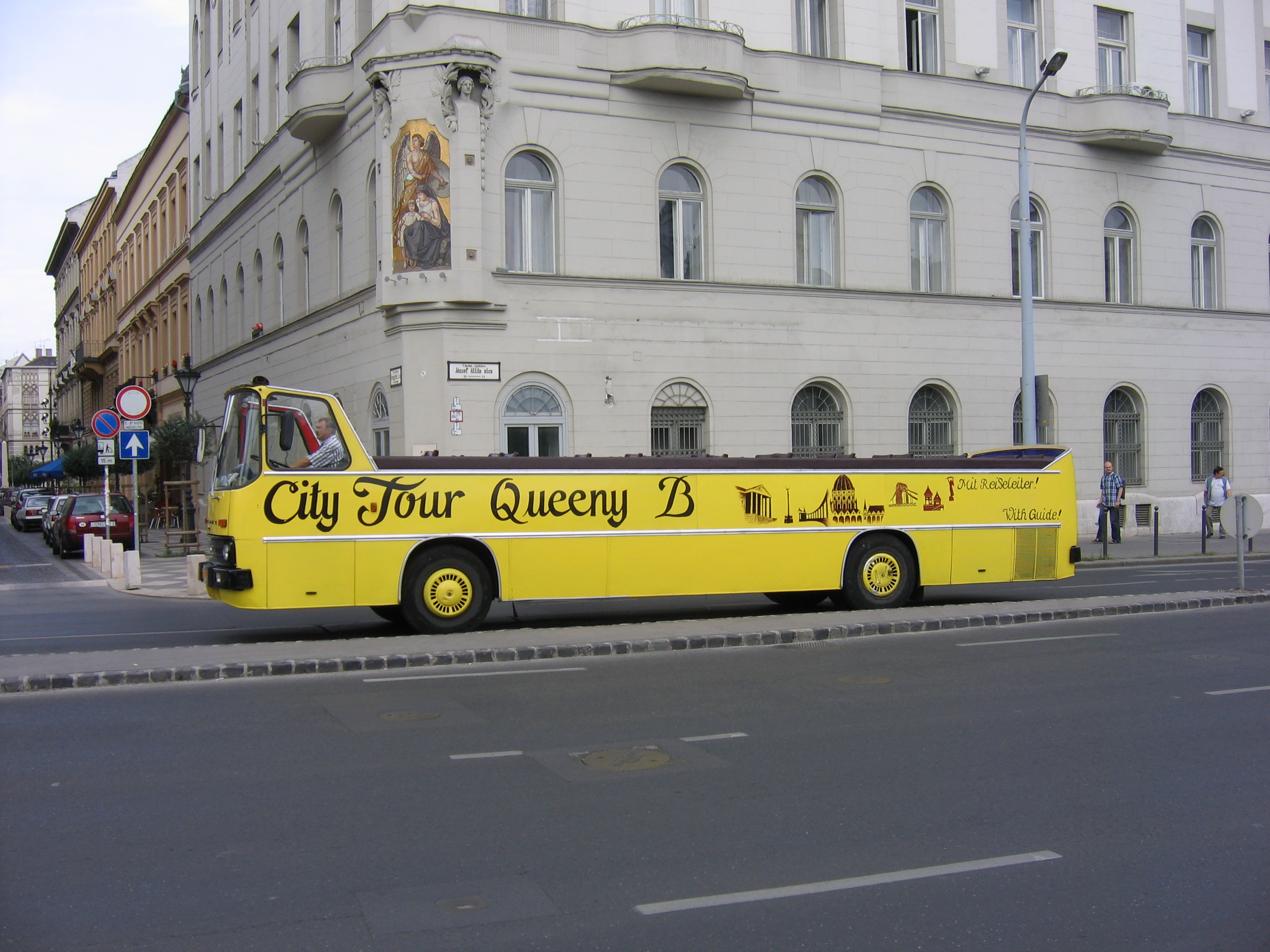 Scenes of Budapest (see filename). City Tour Bus, Budapest